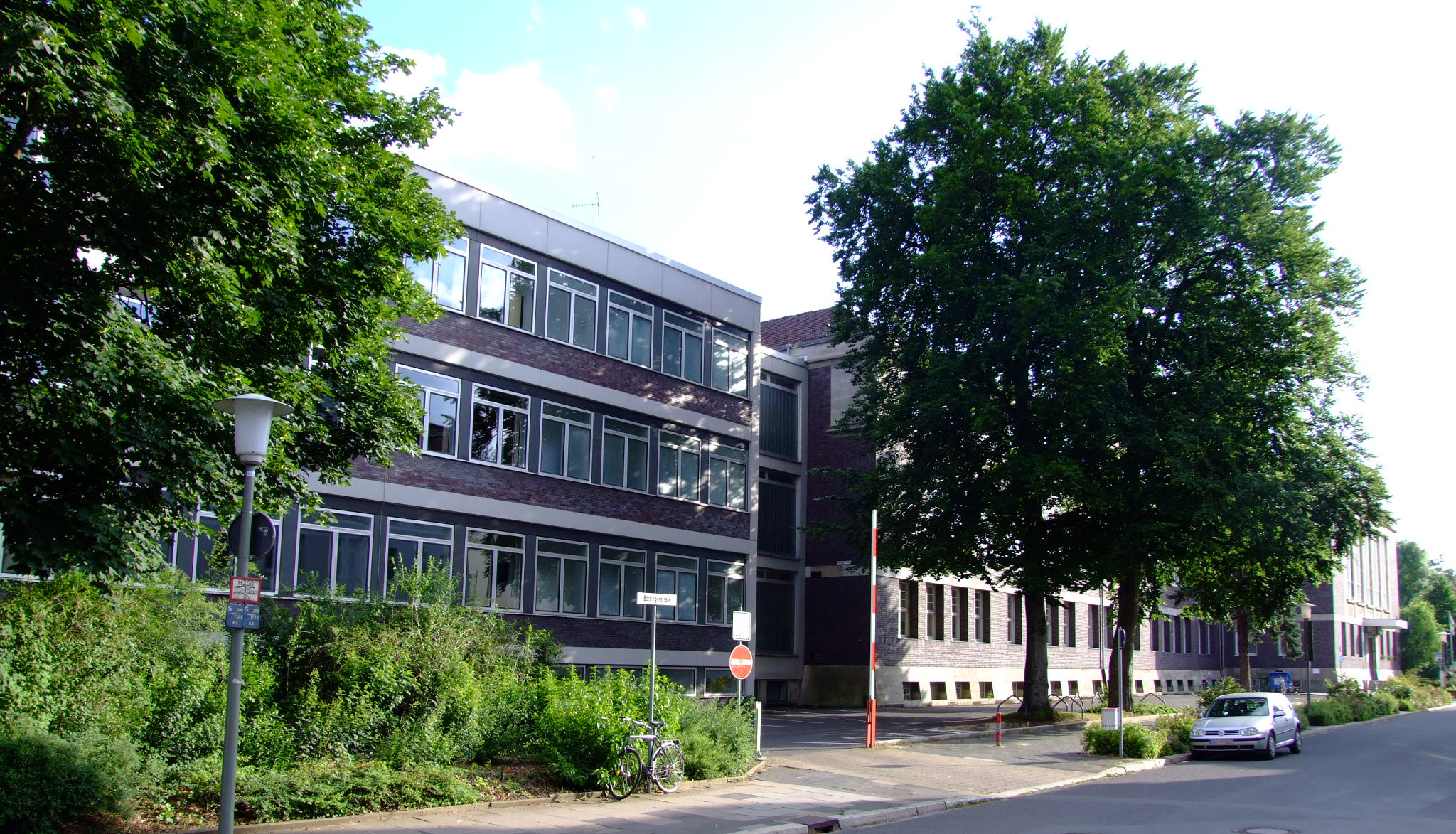 Felix Klein Gymnasium Göttingen (grammar school), extension of the school building in the foreground